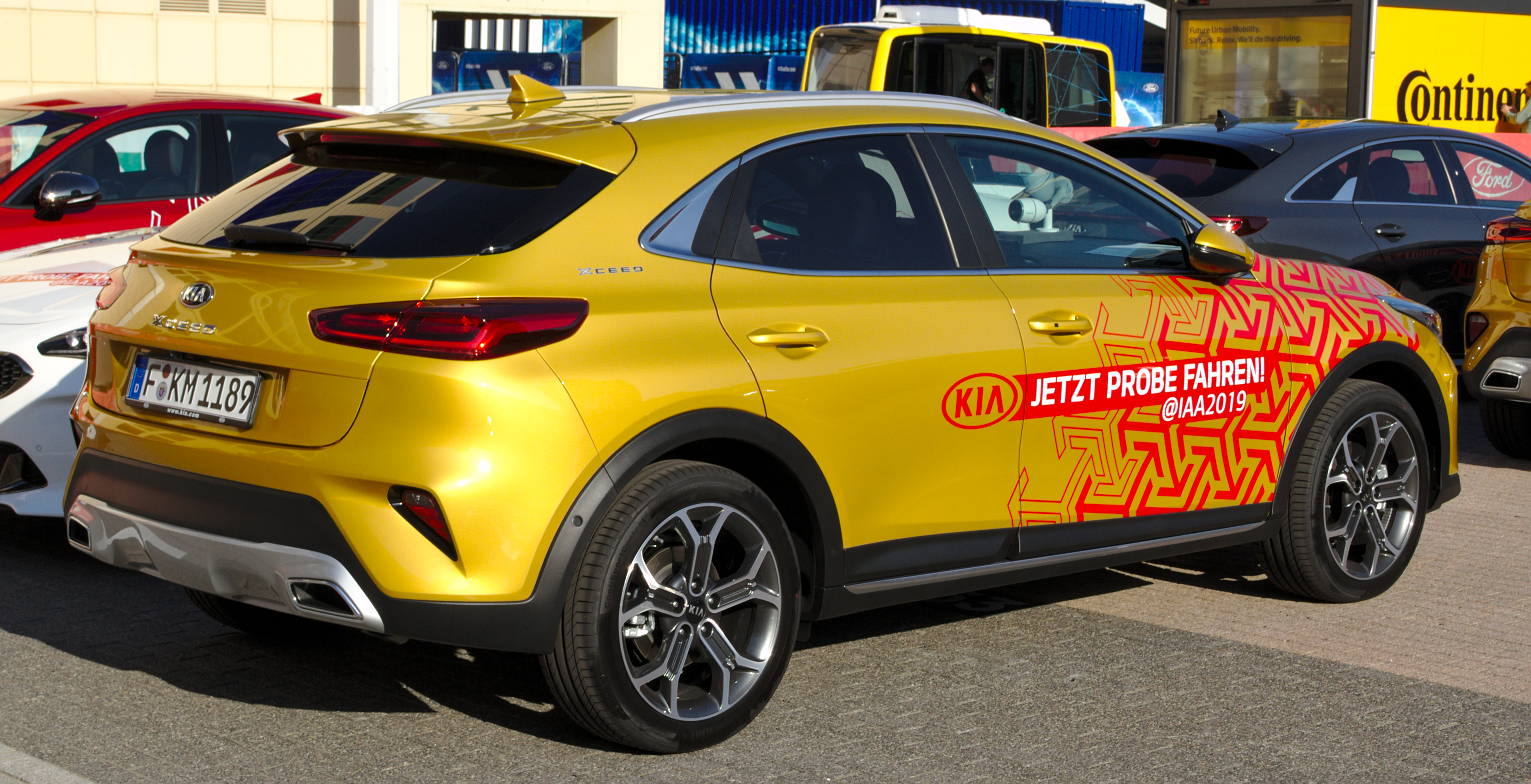 Kia_XCeed at IAA 2019